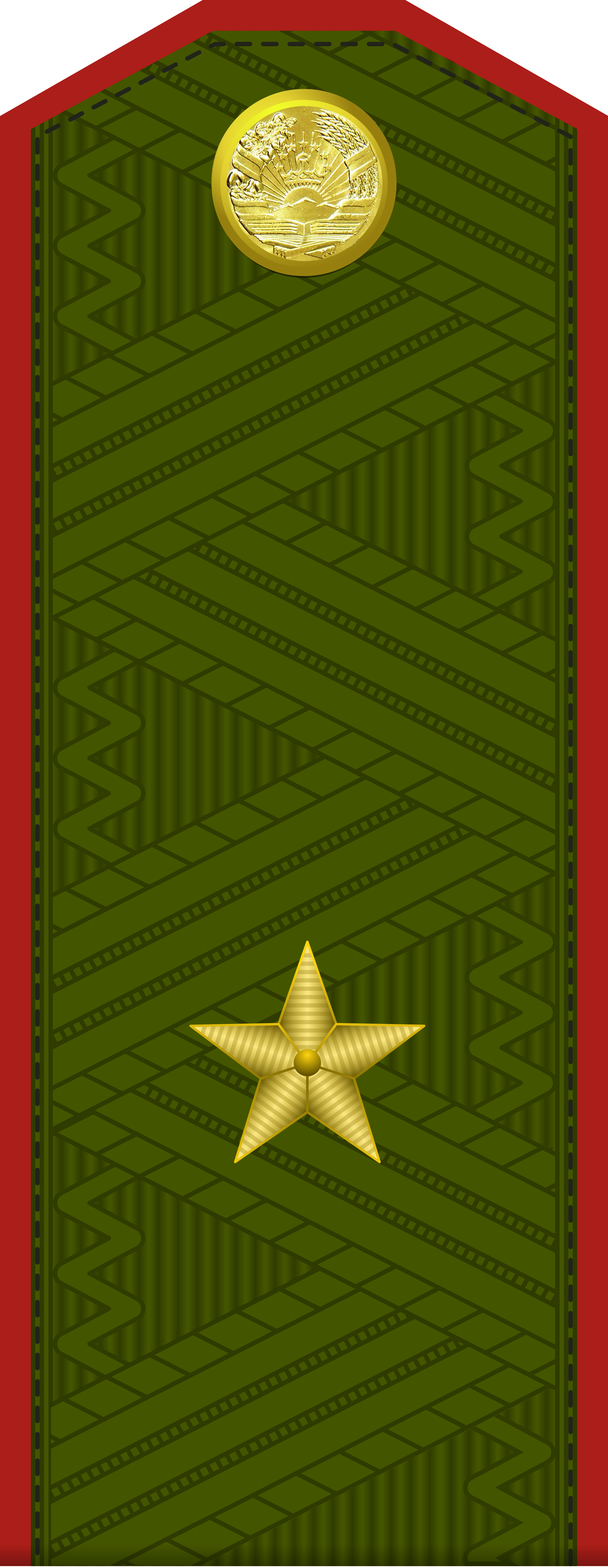 Тоҷикӣ: Rank insignia of Major General for the Tajikistan Army